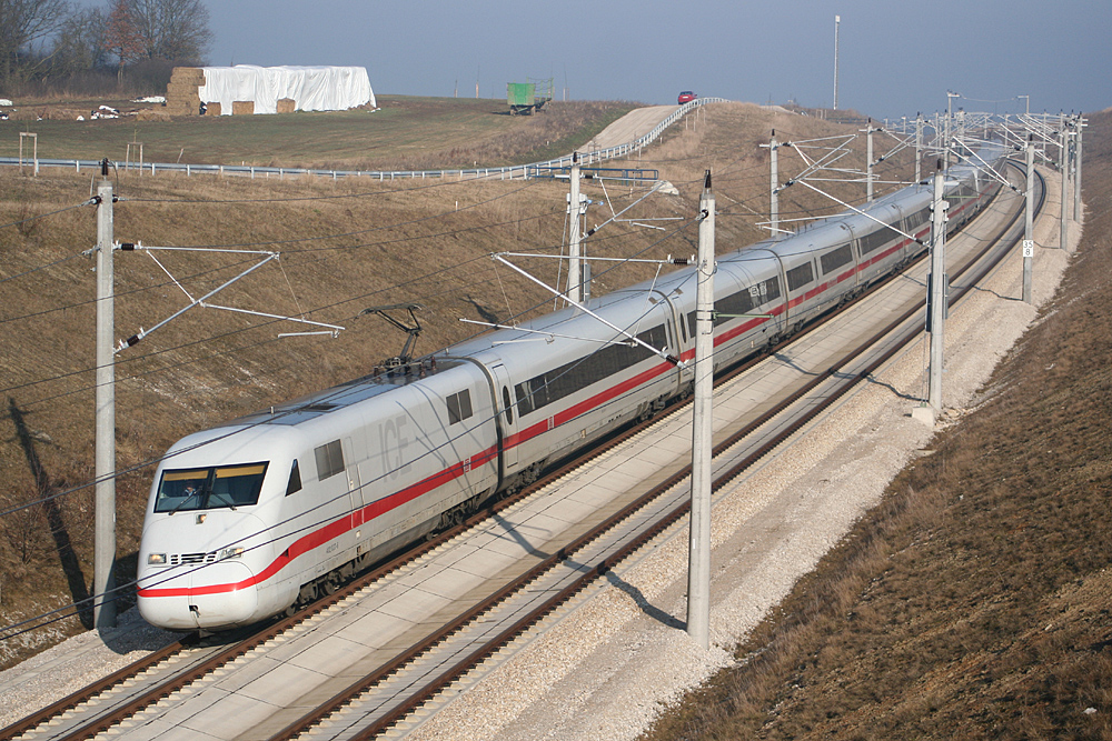 An ICE 2 high-speed train on the Nuremberg-Ingolstadt high-speed railway line